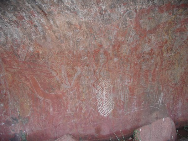 Uluru rocks in Australia, aborygen picture